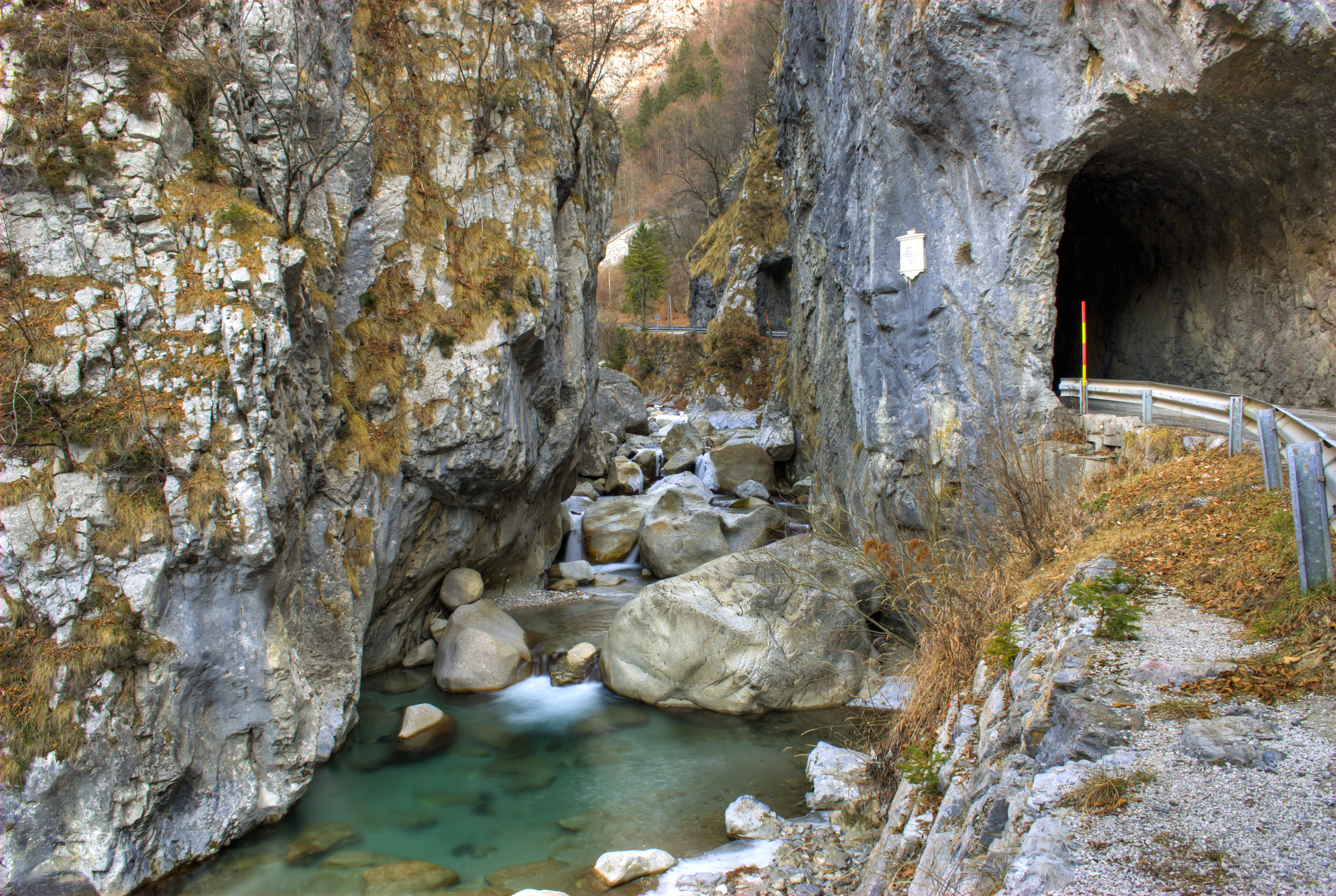 River Tržiška Bistrica in Dovžan gorge